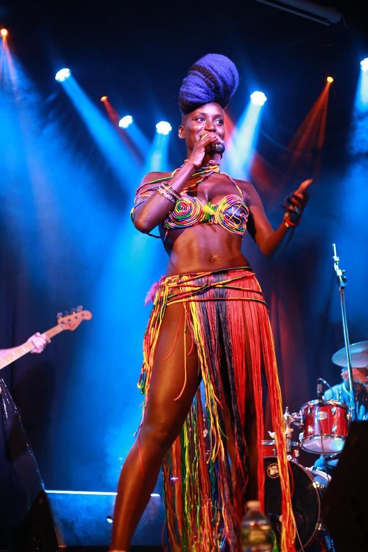 2020 photo of Marieme taken by Oli Ren